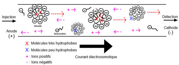 Ceci est un croquis du fonctionnement d'une chromatographie capillaire électrocinétique micellaire